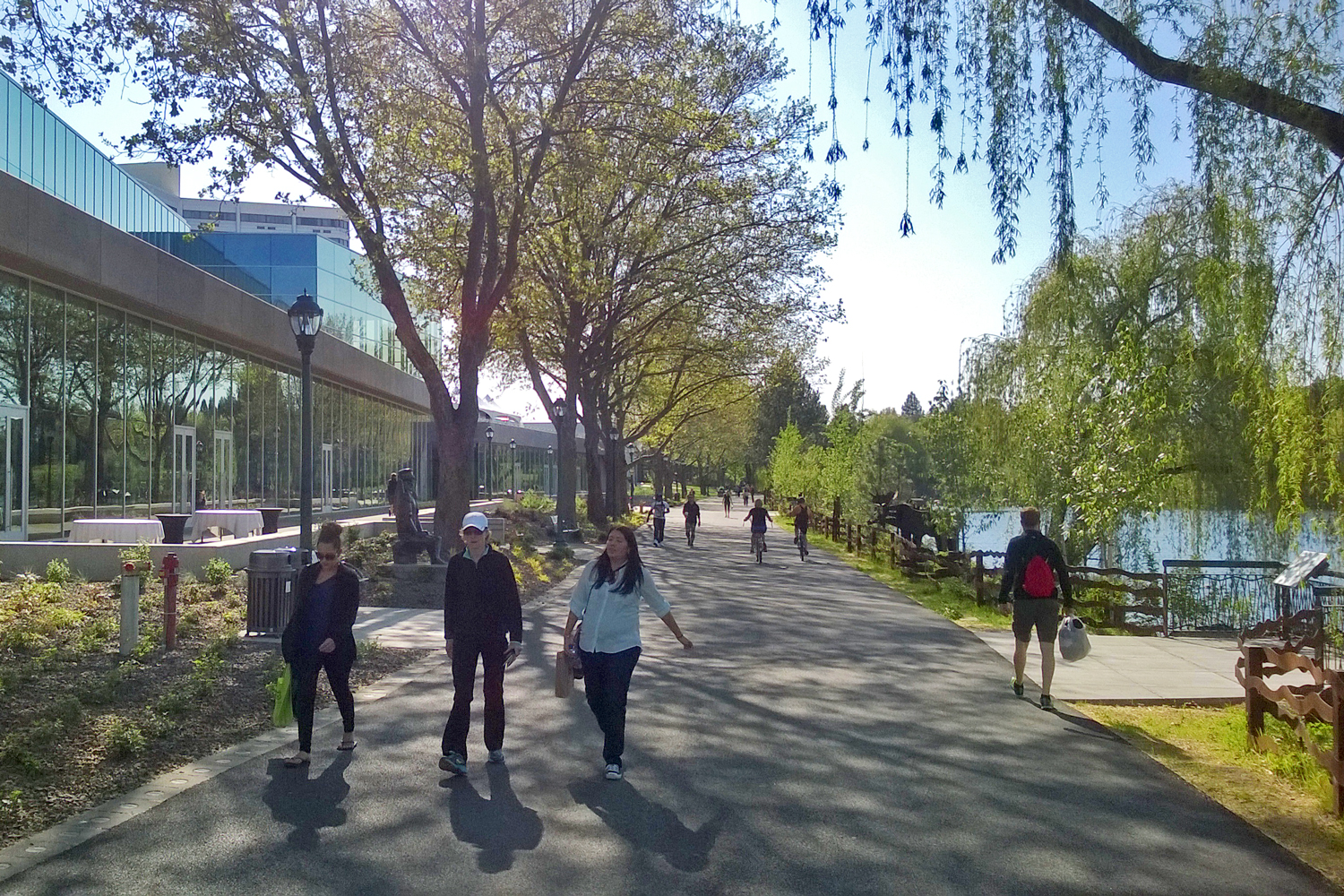 Centennial Trail along the north side of the Spokane Convention Center.